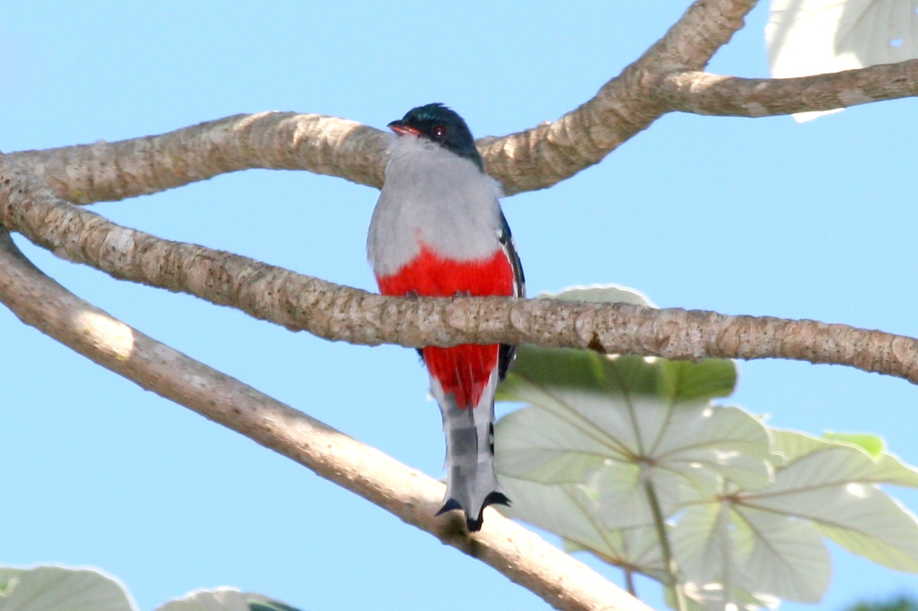 Cuban Trogon (Priotelus temnurus) Dysmorodrepanis 22:43, 30 May 2008 (UTC)